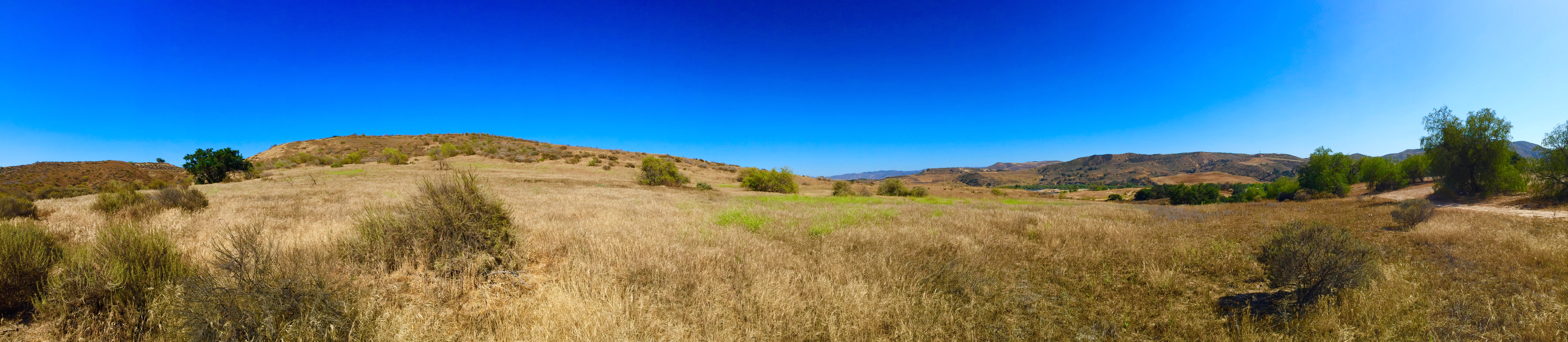 View from a trail in Oak Park, Simi Valley